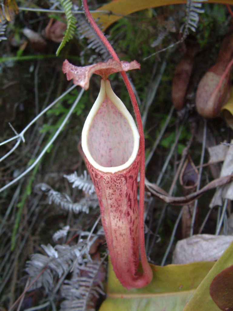 Nepenthes maxima from Sulawesi (400 m altitude)